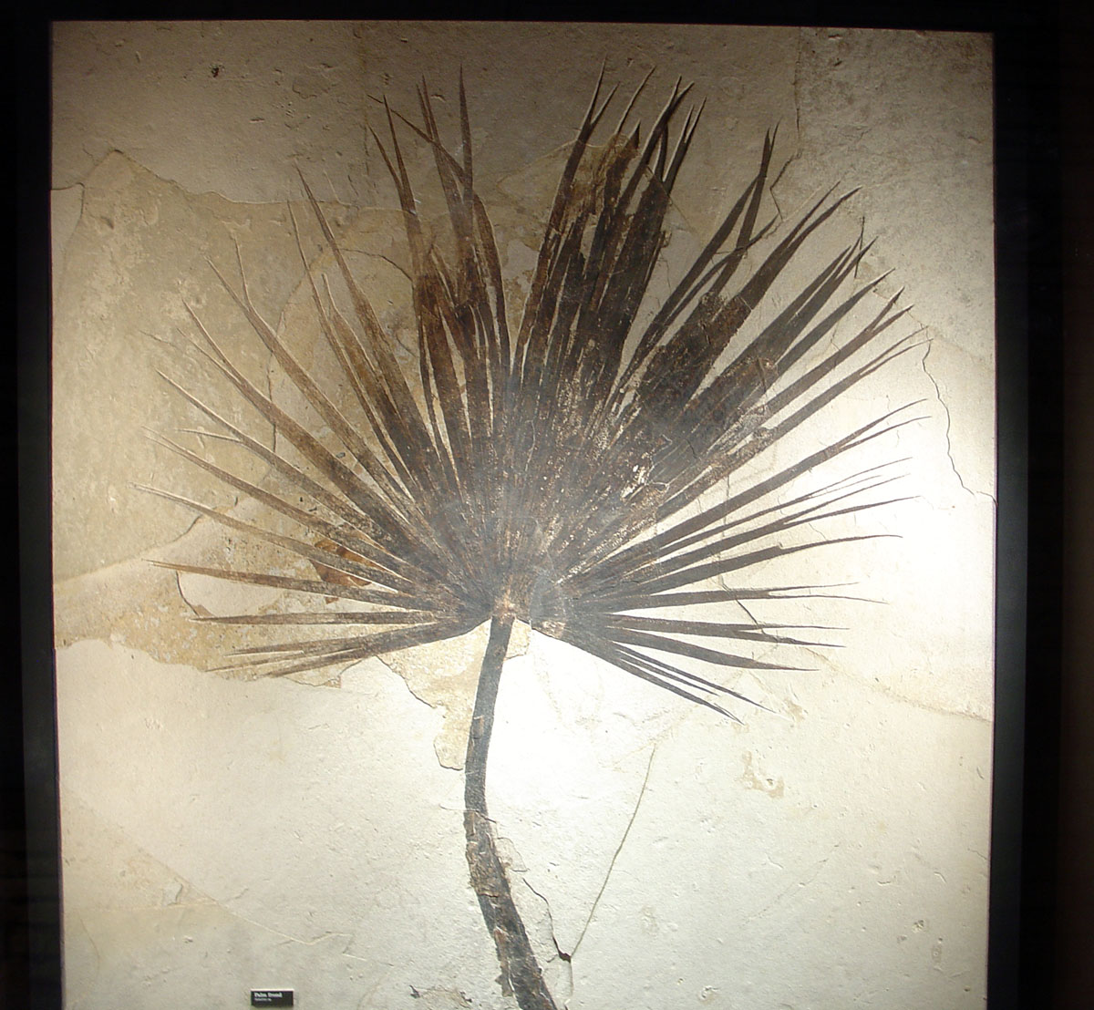 This fossil palm leaf (Sabalites sp.) [but identified as Palmites at the 2013 website) is on display in the Fossil Butte Visitor Center. The existence of palm fossils in the Green River Formation shows that when the sediments were deposited in this portion of the Green River Basin in Eocene time that the climate was subtropical and probably close to sea level in elevation. The URL of this page is: [dead link] 2103 URL: All color photography on this website was taken by Phil Stoffer (USGS) unless otherwise stated on the image caption text. All images are "public domain."